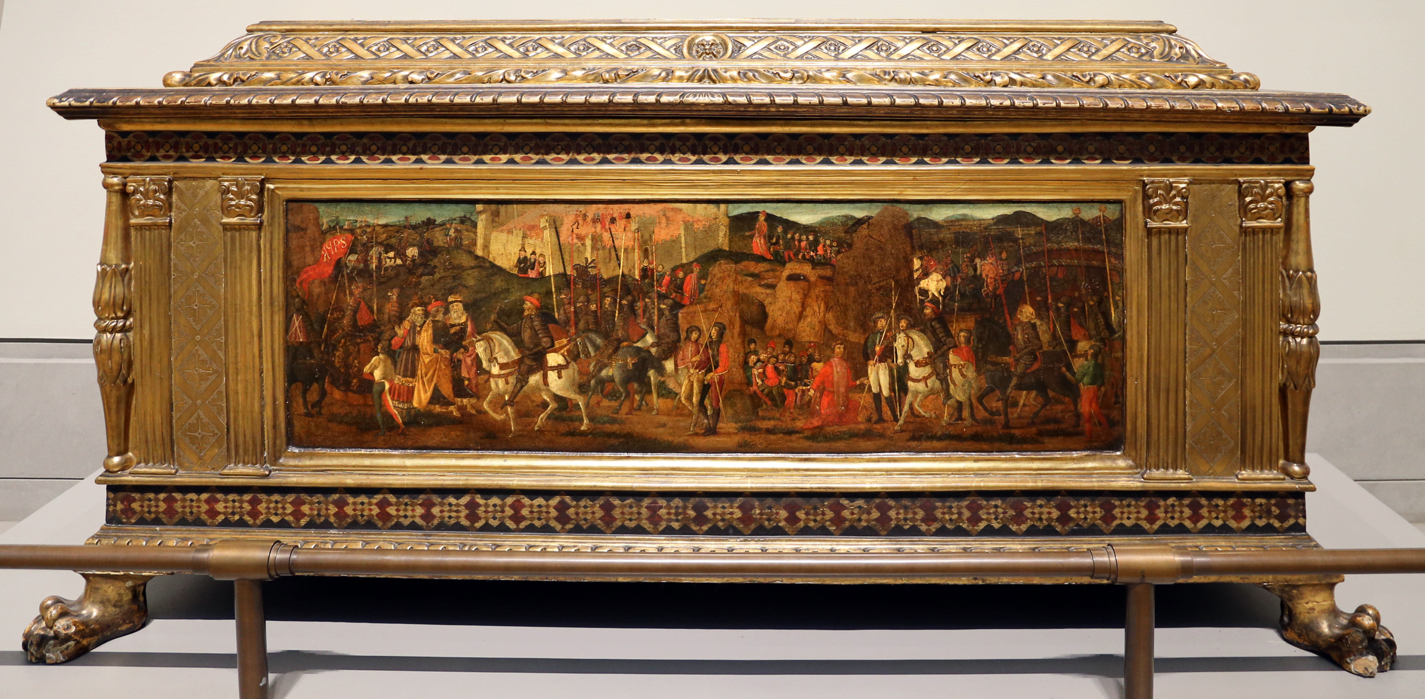 Italian Renaissance paintings in the National Gallery, London